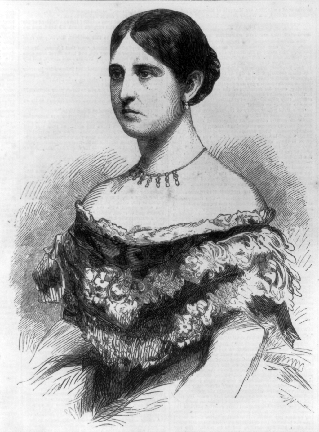 Engraving of Teresa Bagioli Sickles, taken from a photograph by Mathew Brady. Illus. in: Harper's Weekly, 1859 March 12, p. 168.